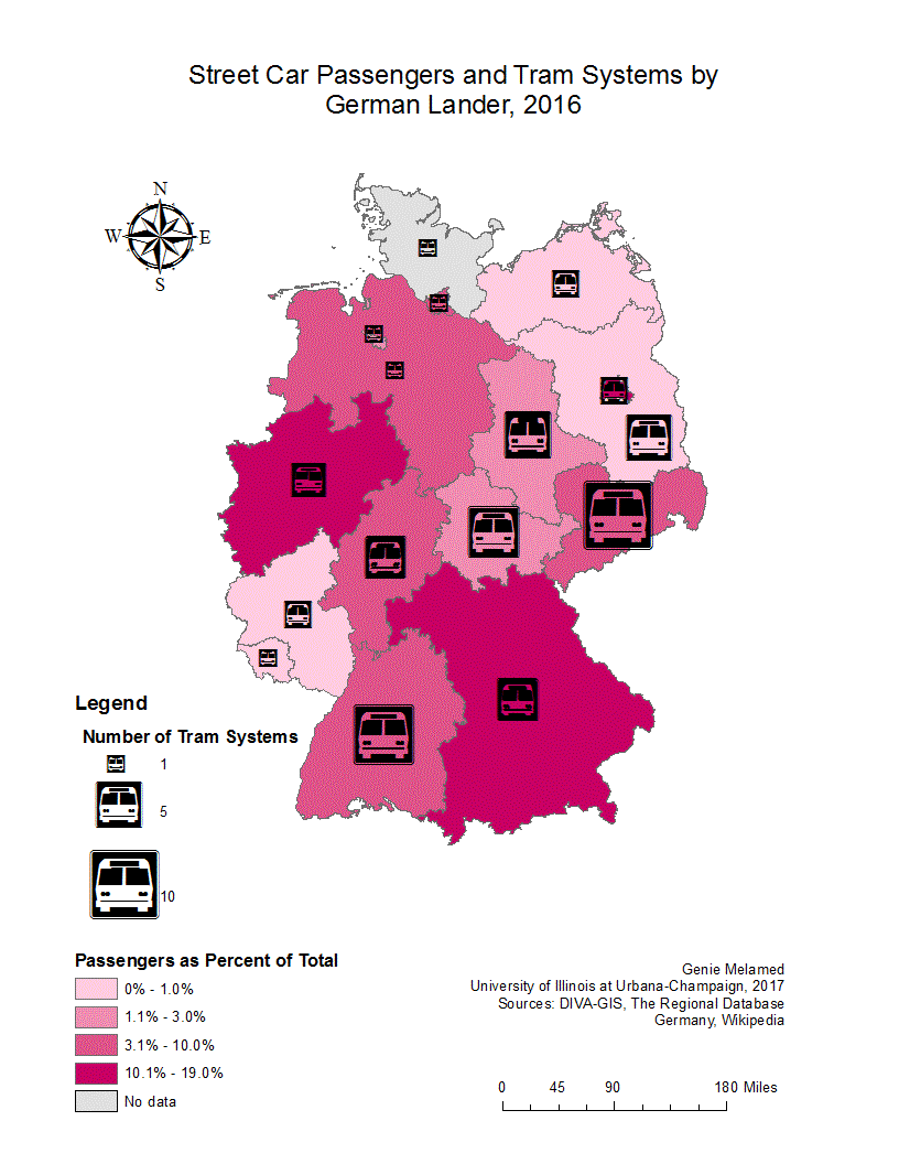 Street car passengers as percent of total street car passengers by German Lander and number of tram systems by German Lander Sources